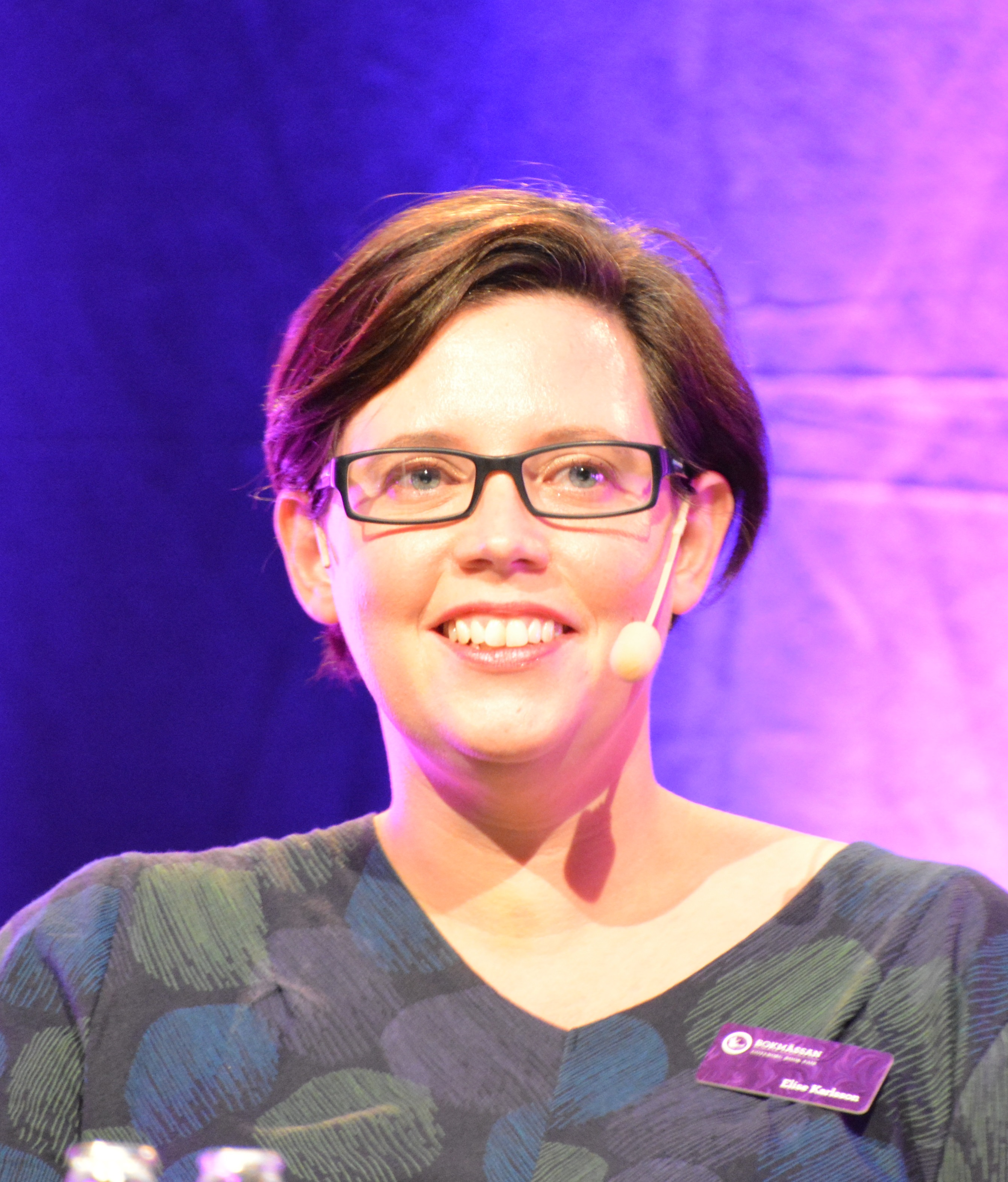 Elise Karlsson